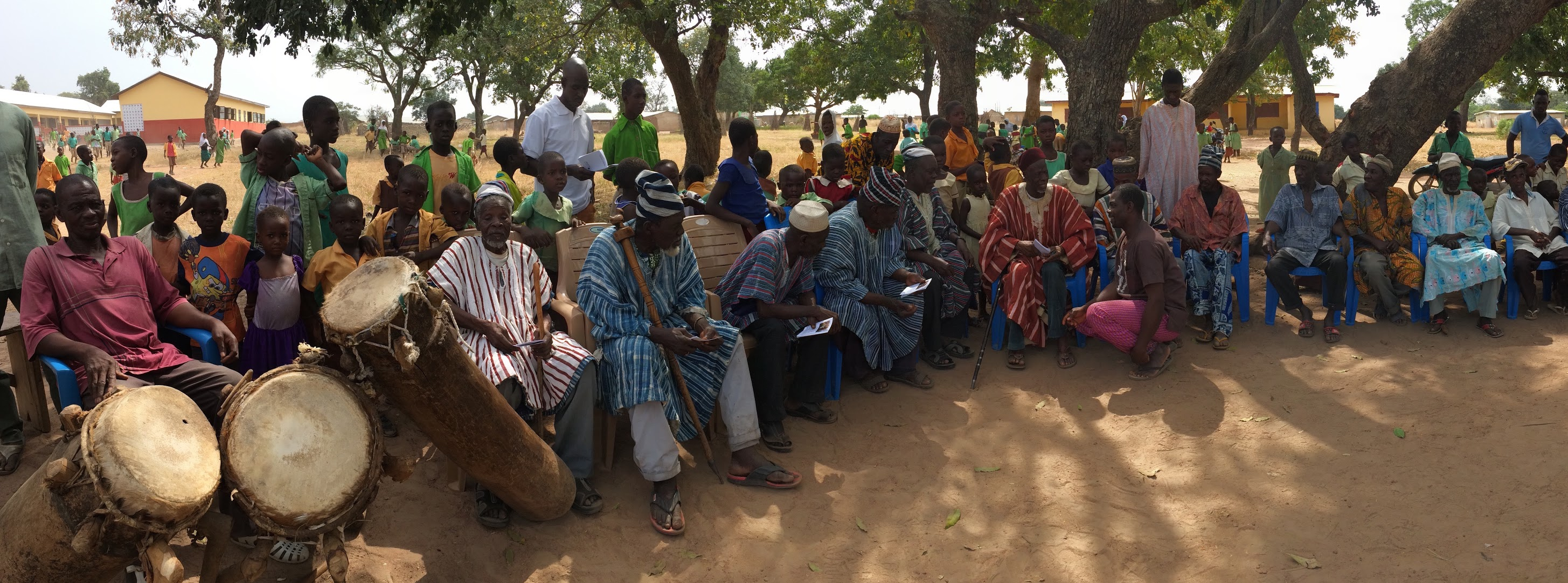 Traditional Safaliba drumming for festive event in Mandari, Ghana in November, 2015. Mandari is the largest Safaliba town with approx. 4,000 Safaliba residents.